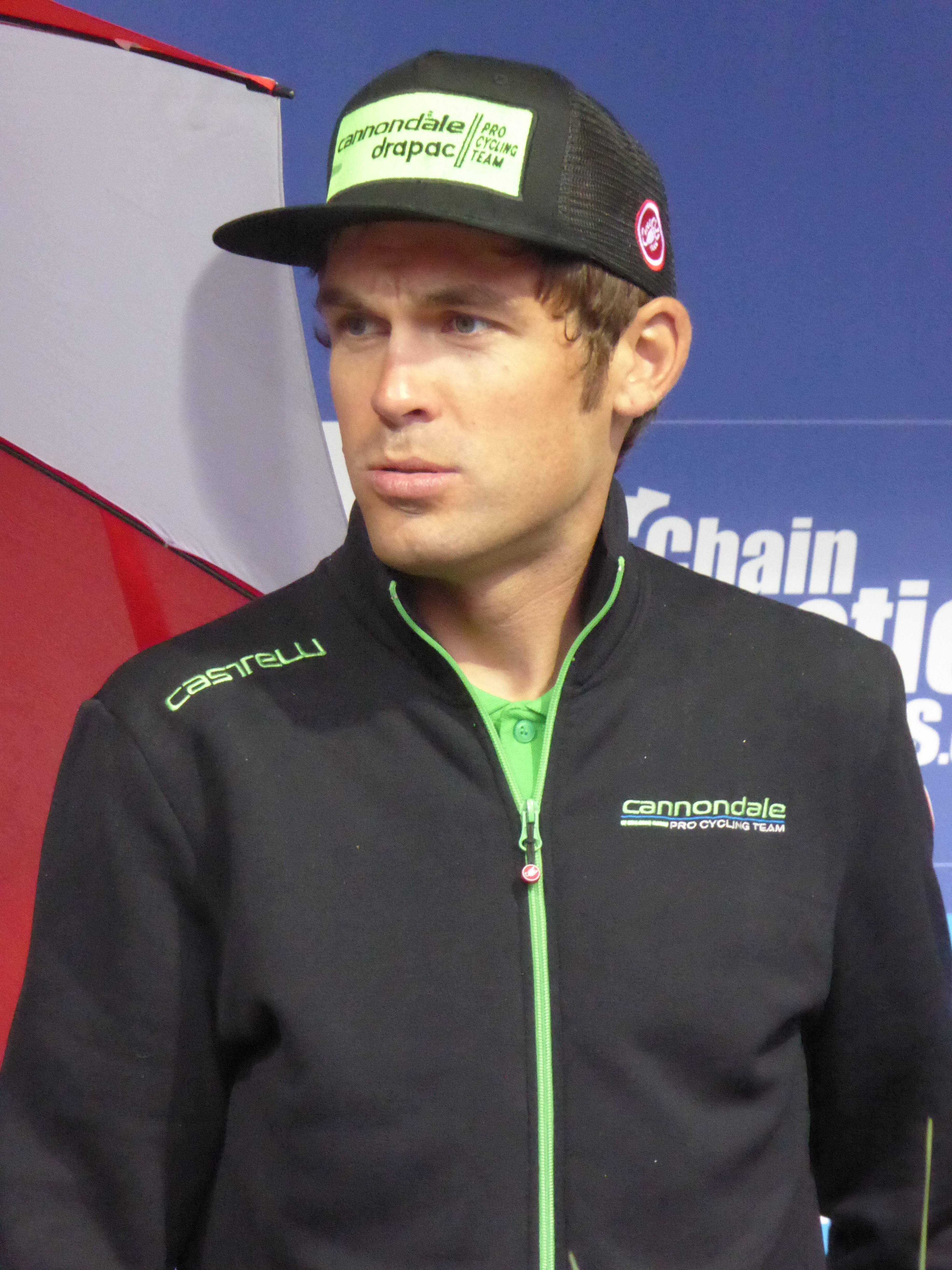 Jack Bauer (Cannondale-Drapac), pictured at the 2016 Tour of Britain team presentation in Glasgow on 3 September 2016.